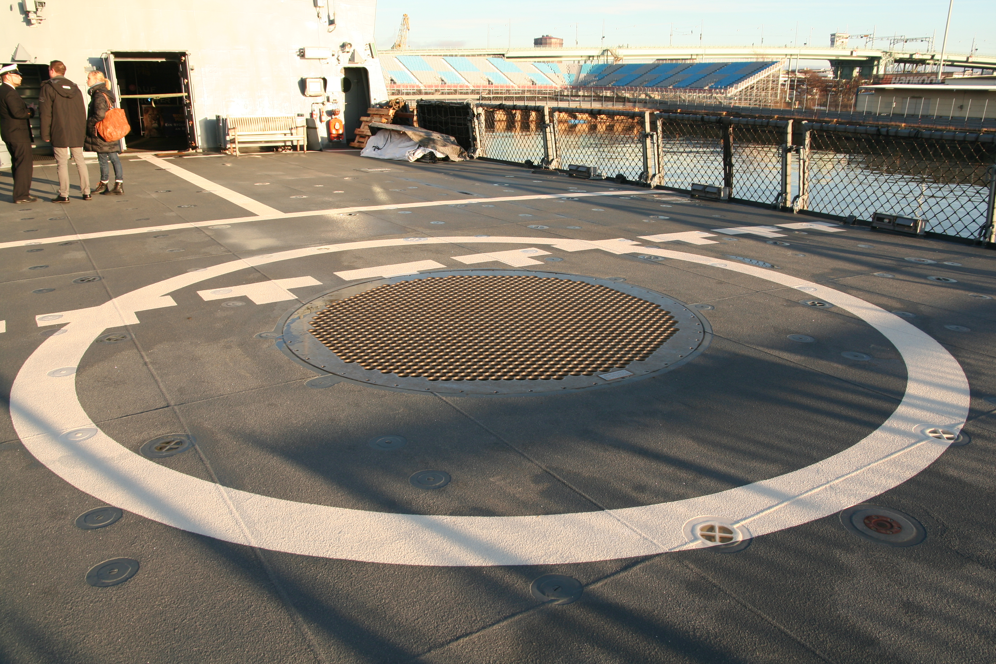 The flight deck of F260 Braunschweig. In the middle a landing grid manufactured by DCN is located. During bad weather conditions, the helicopter grabs the grid with a harpoon and can then make a controlled takeoff or landing.